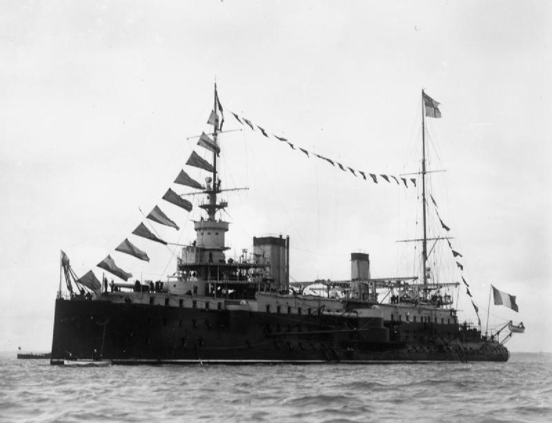 Symonds and Co Collection CARNOT (1894) at anchor off Spithead, 1905.